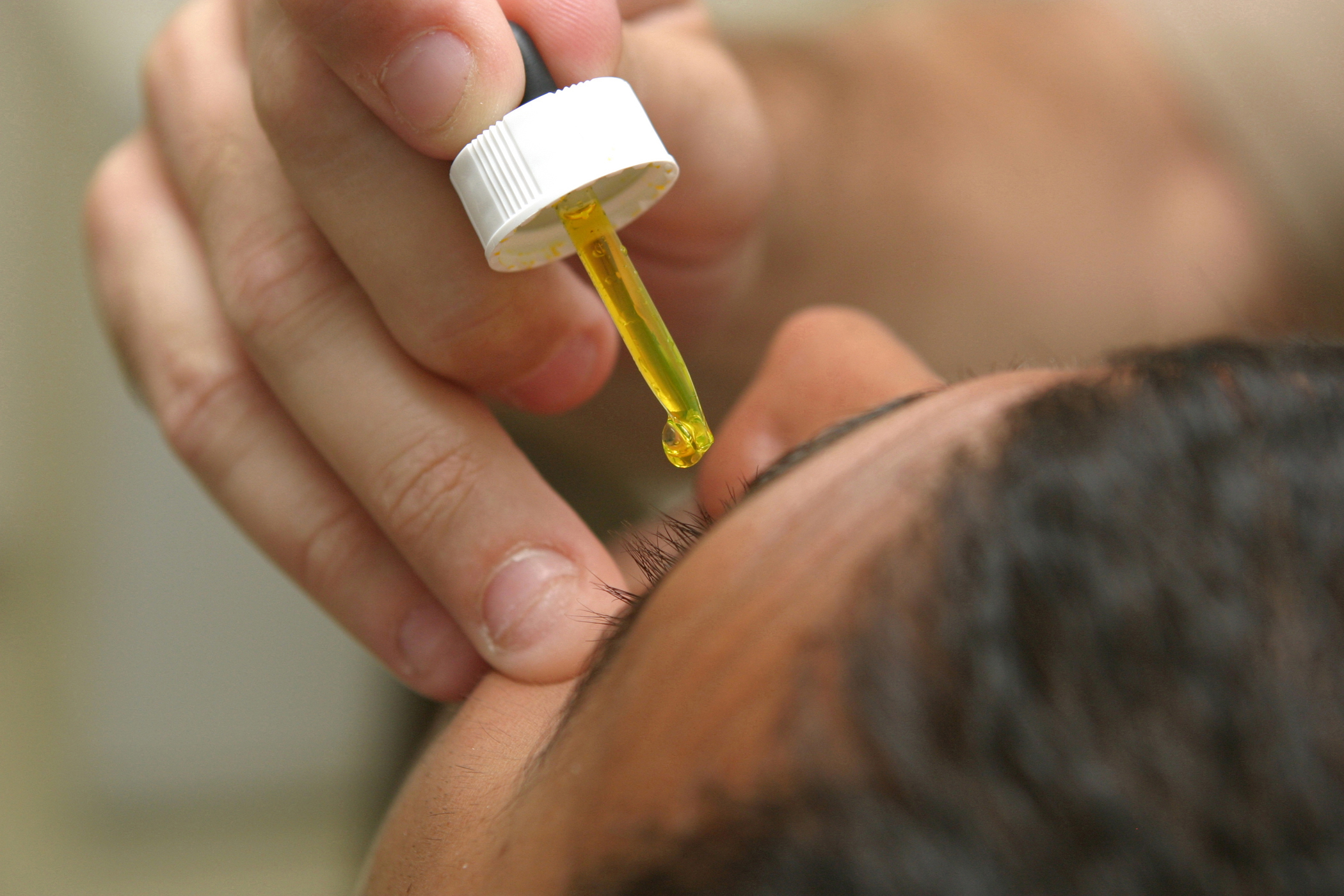 CAMP HANSEN, OKINAWA, Japan – Flourescein is dropped into a patient’s eye to make his eyes easier to examine during various procedures using the slit lamp, a microscope device used to evaluate many aspects of eye health. Flourescein is a combination of anesthetic and dye. The dye makes certain areas in the eye glow and easier to see. The optometry clinics here and aboard Marine Corps Air Station Futenma extended their eye care service beginning Aug. 2, from three days to five days each week, saving hundreds of lost man-hours spent traveling to the hospital on Camp Lester for eye care.